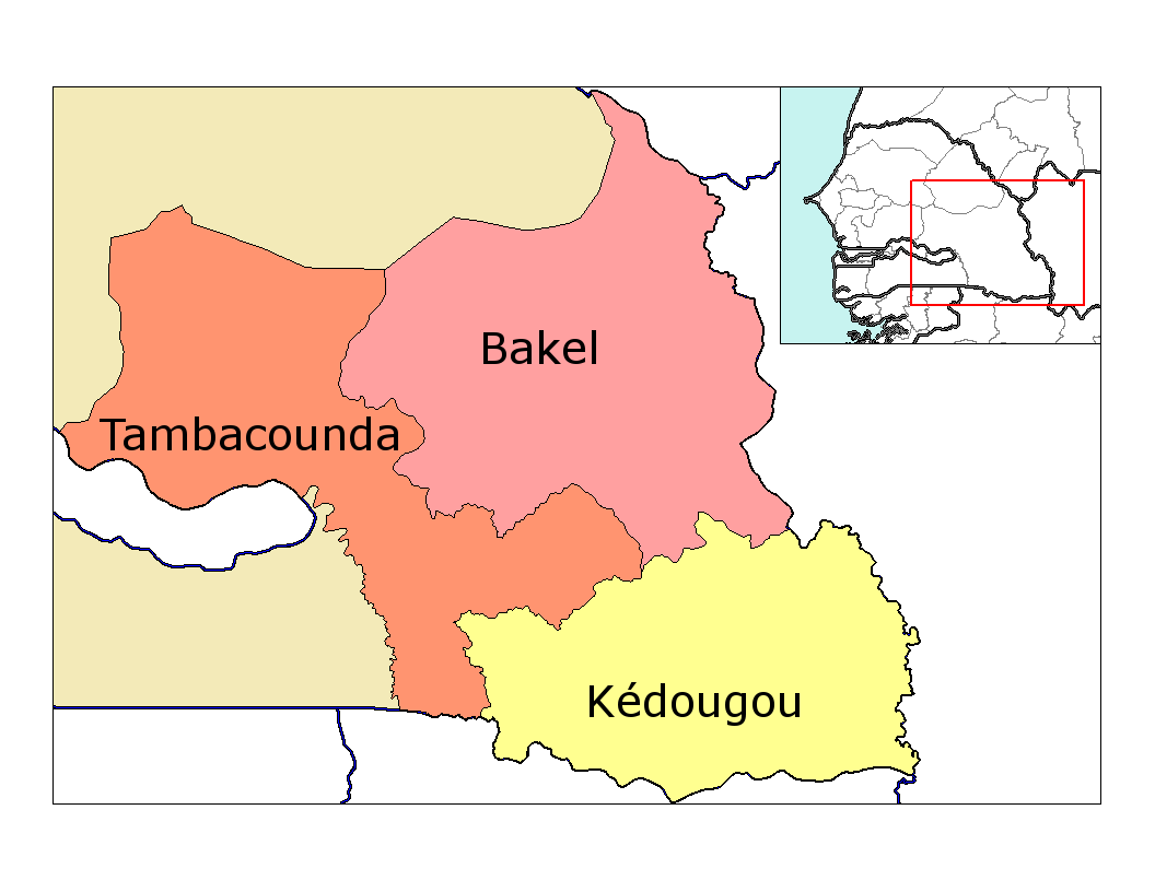 Map of the departments of Tambacounda region in Senegal. Created by Rarelibra 22:32, 28 December 2006 (UTC) for public domain use, using MapInfo Professional v8.5 and various mapping resources.